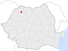 Location of Cehu Silvaniei in Romania.